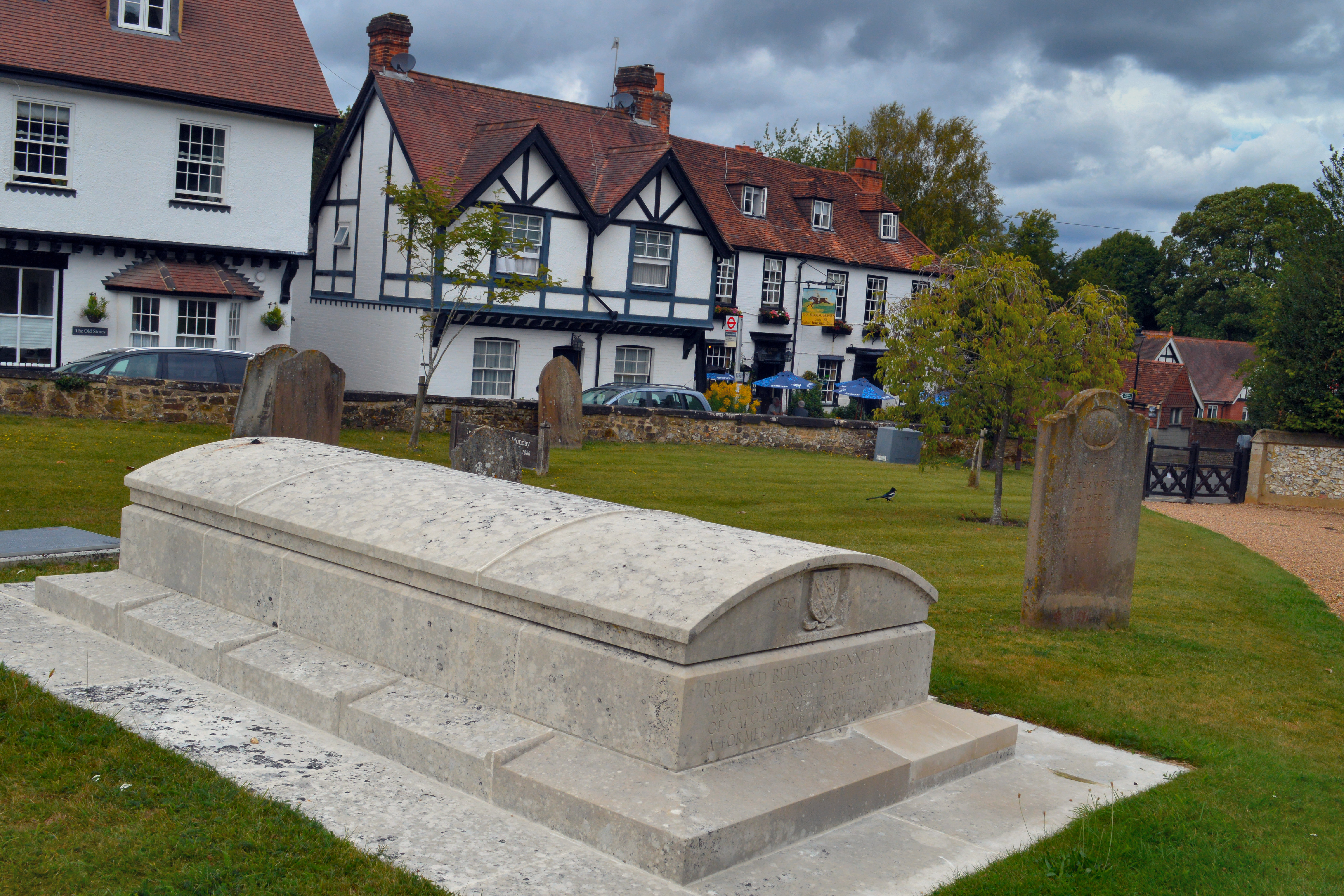 Mickleham, St Michael's Church, Richard Bedford Bennett tomb